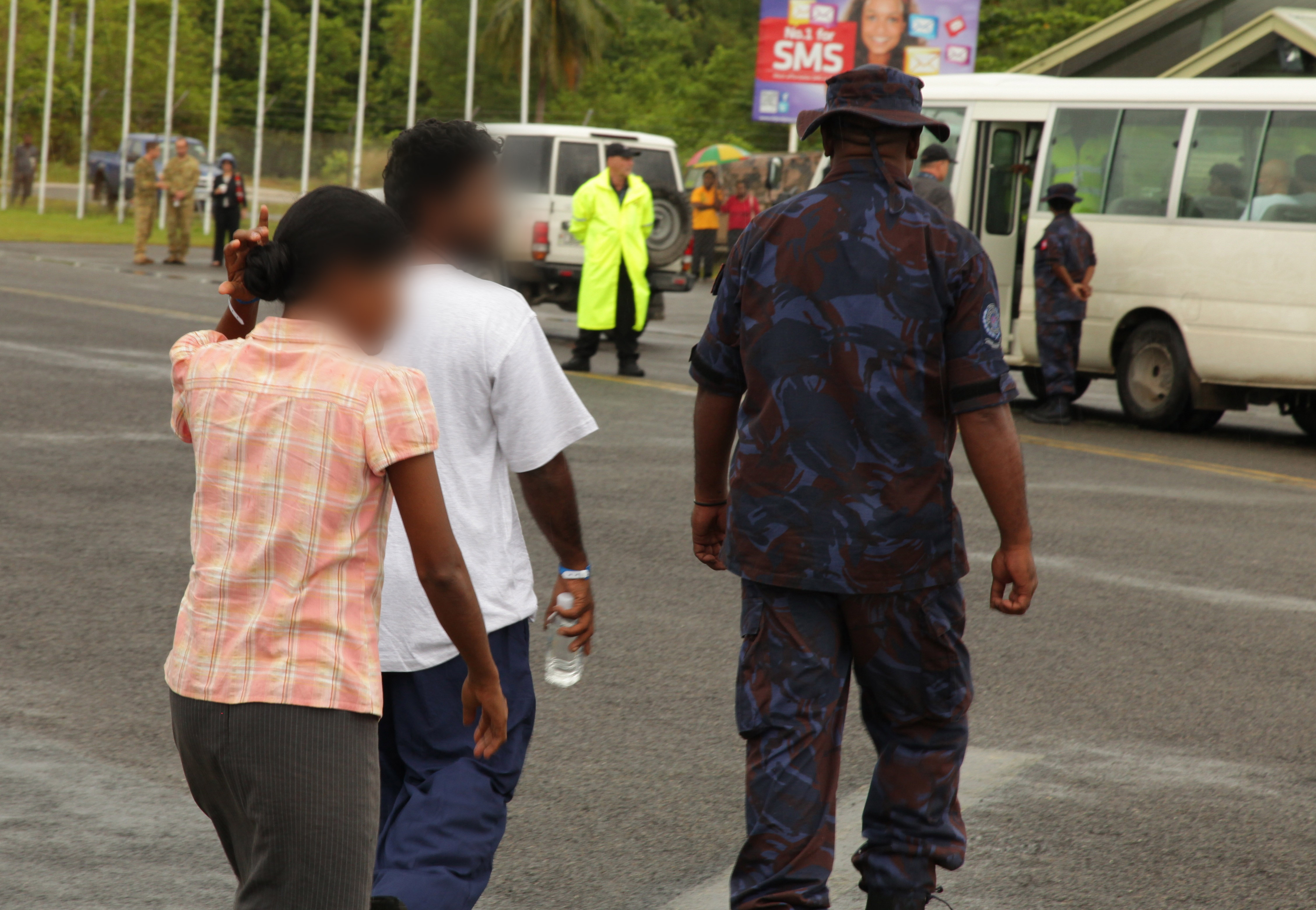 The first group of irregular maritime arrivals arrived at the regional processing centre in Manus Island, PNG today. The 19 people, comprising families from Sri Lanka and Iran, departed Christmas Island late yesterday. Transfers to Manus Island and Nauru will continue in coming weeks and months.